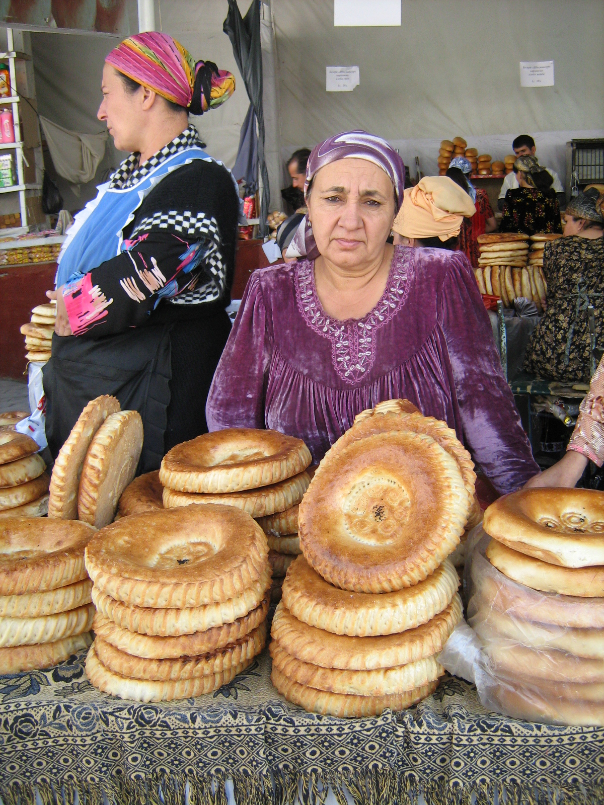 Bread Market in Dushanbe, Tajikistan